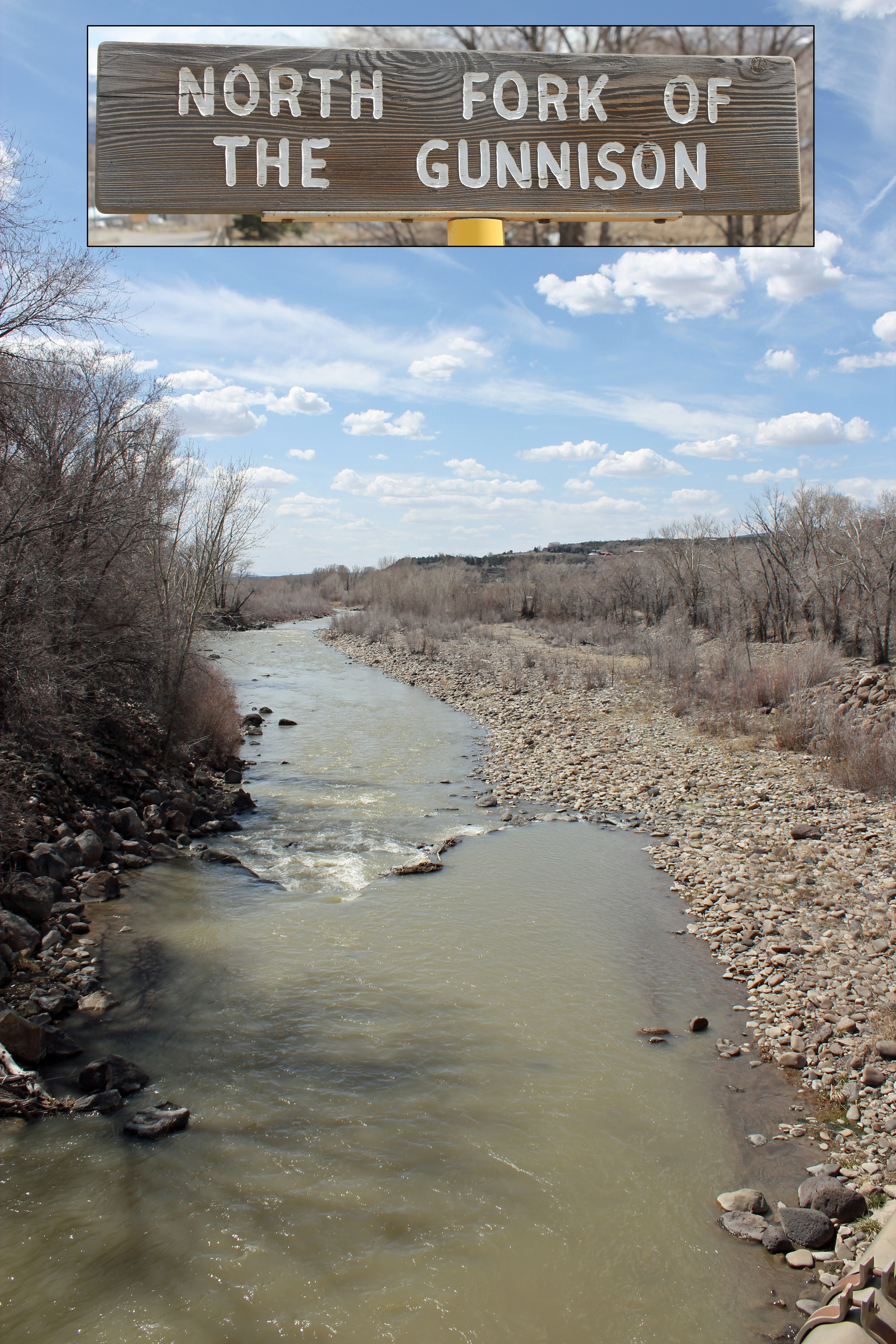 The North Fork of the Gunnison River. The view is from a bridge on Samuel Wade Road just outside of Paonia, Colorado. The inset shows the sign at the northwest end of the bridge.